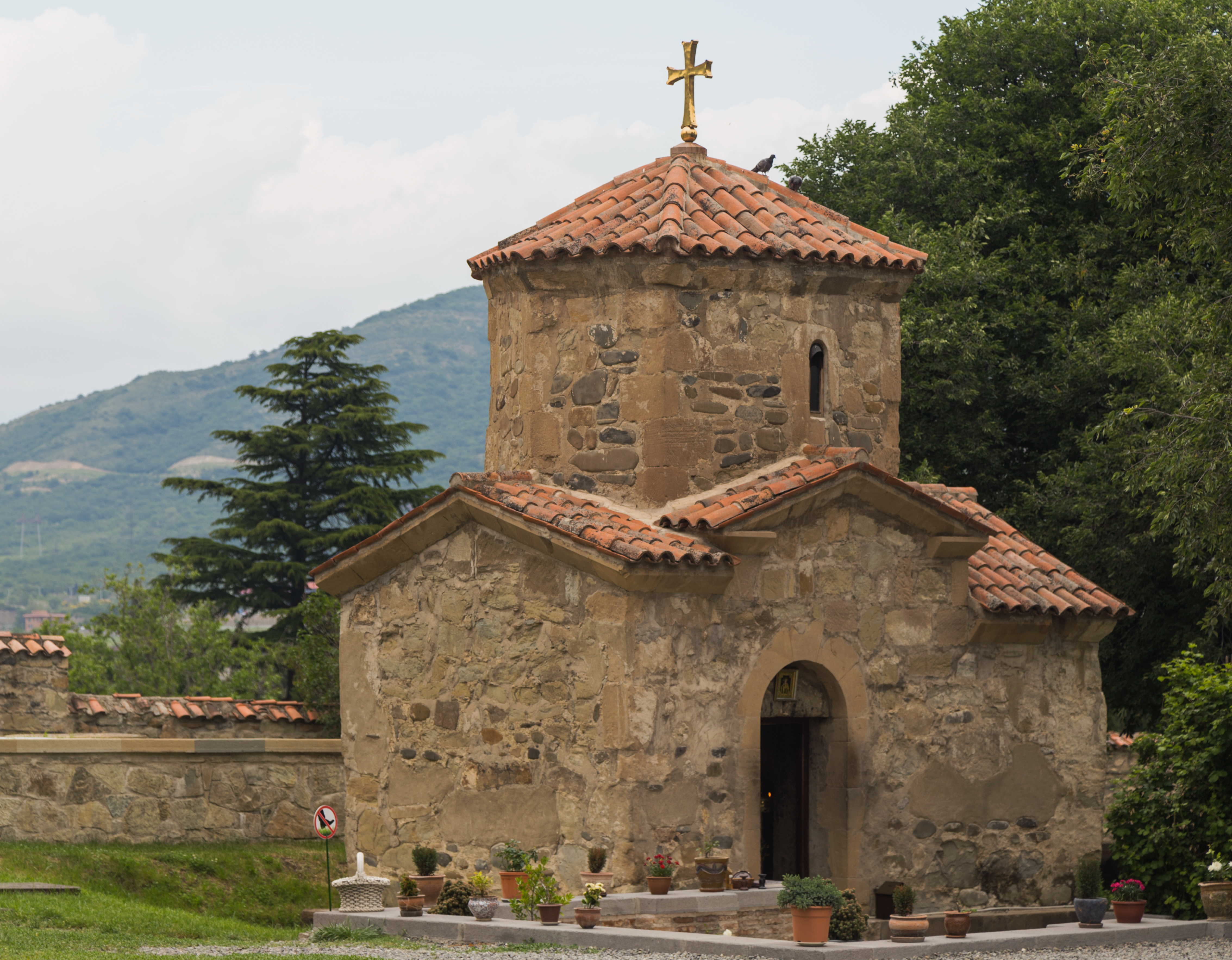 Samtavro Monastery - St. Nino church. Mtskheta, Georgia.